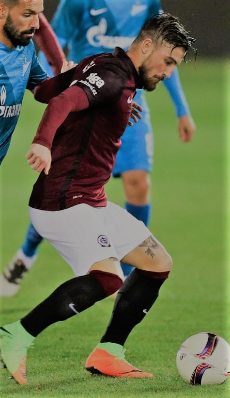 Lukáš Vácha